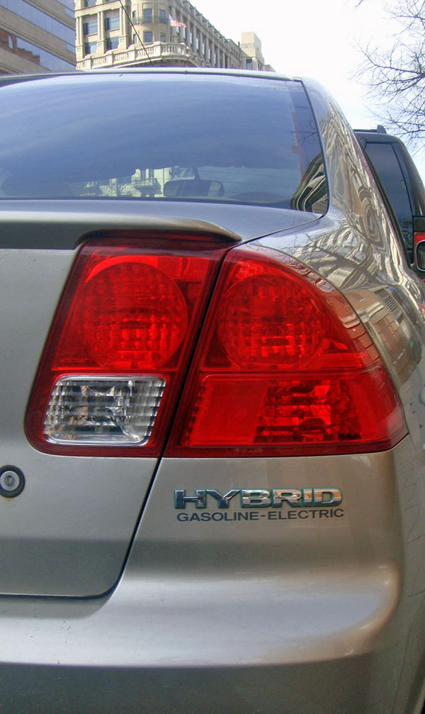 Zoom in of the badging of a Honda Civic Hybrid (Gasoline-Electric) Washington, D.C.